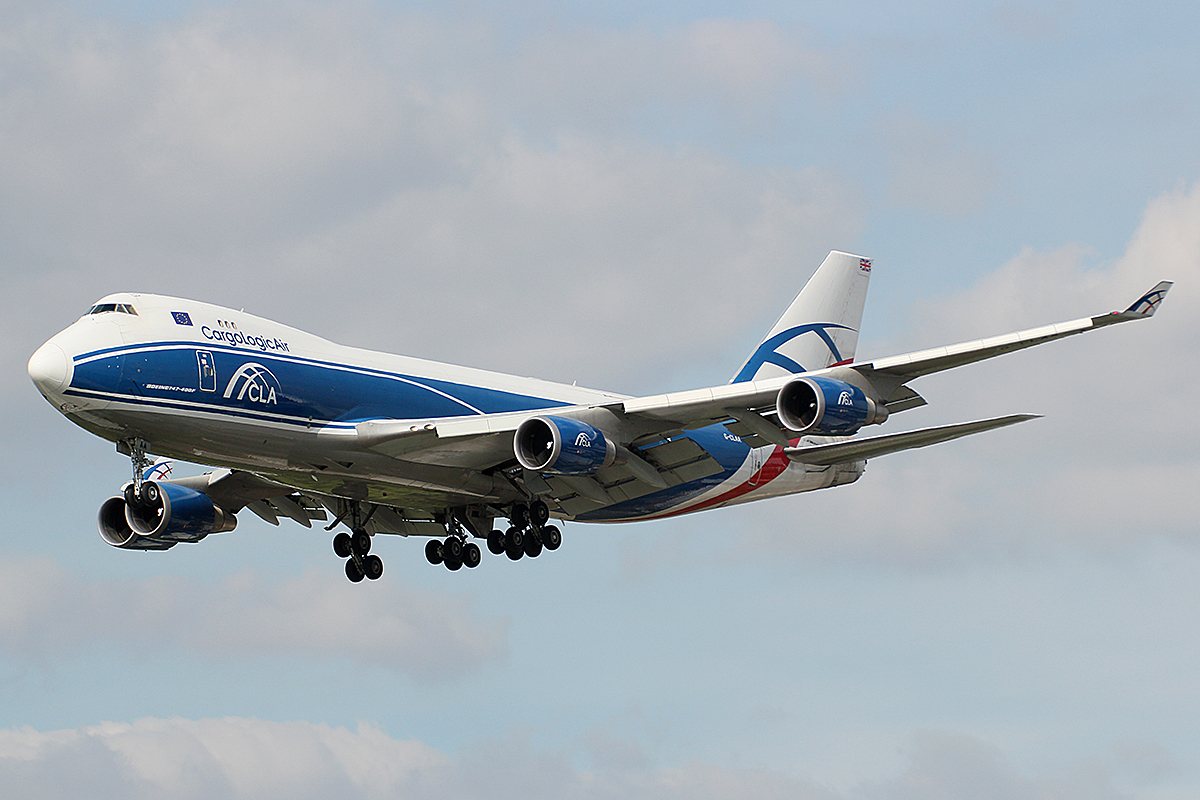 G-CLAA Boeing B747-446F @ Heathrow 03/06/2017